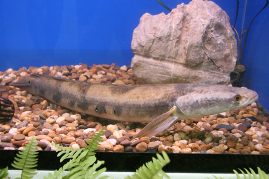 A cobra snakehead fish (Thai: ปลาช่อนงูเห่า) at the 20th Pramong Nomklao fish show event at the Future Park Rangsit, Thailand, in July 2008. The specimen was labelled as Channa aurolineatus by the event organizers, but some sources would have called it a Channa marulius instead as they did not consider C. aurolineatus a separate species. Picture taken by myself.